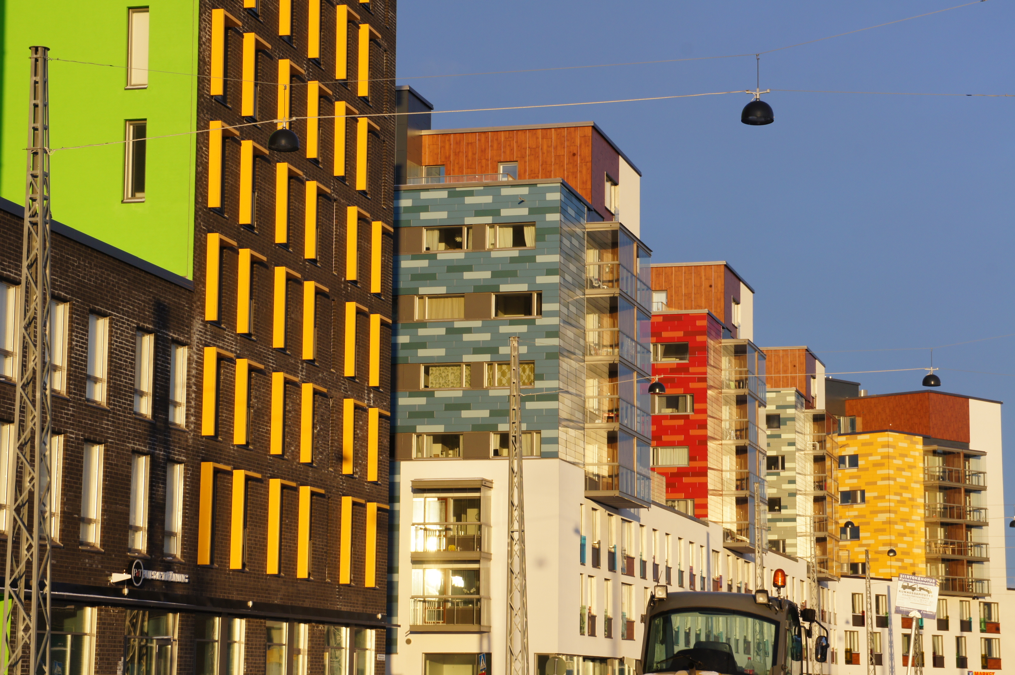 Street view from Välimerenkatu in Jätkäsaari, Helsinki, HOAS student apartments, (right), Alkuasunnot, owned by Nuorisoasuntoliitto (right)